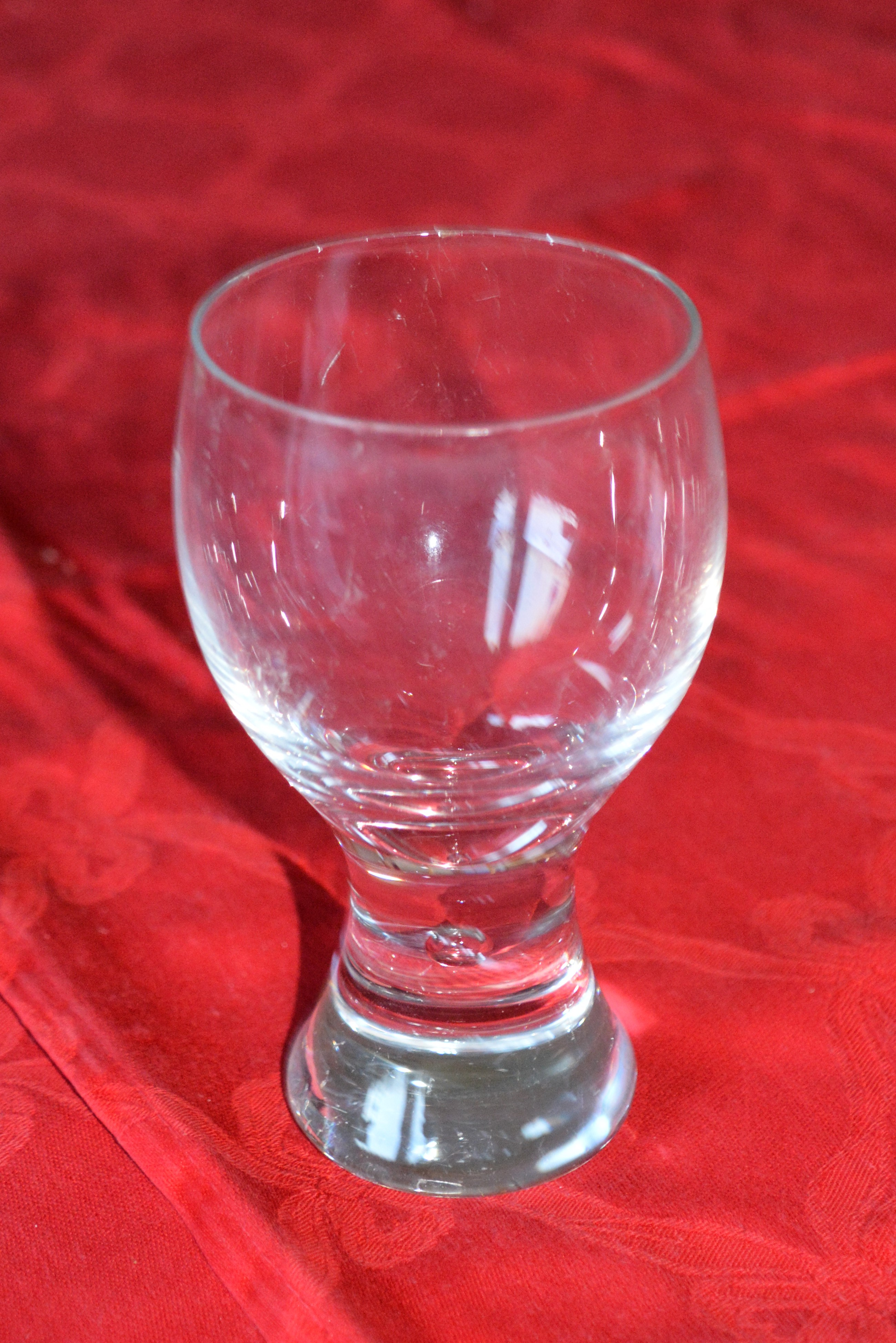 Drinking glass, model Rondo, by Göran Wärff, Kosta Glassworks